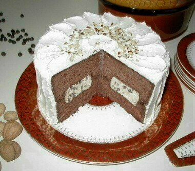 Owner of photo, technology and trademark.